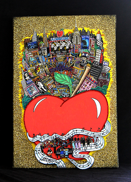 Front view of Charles Fazzino's 3-D artwork featuring New York City.